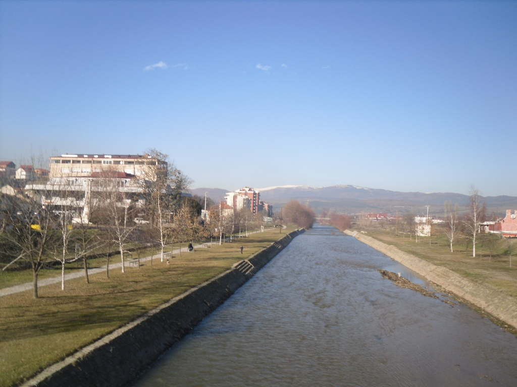 Town of Gotsevo, North Macedonia, December 2017